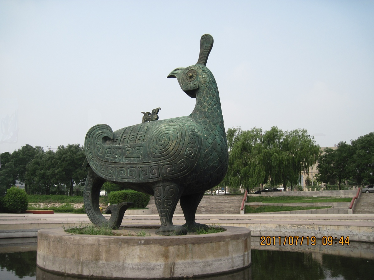 The enlarged replica of "Jin Hou Niao Zun", the mainstay of Shanxi Museum.